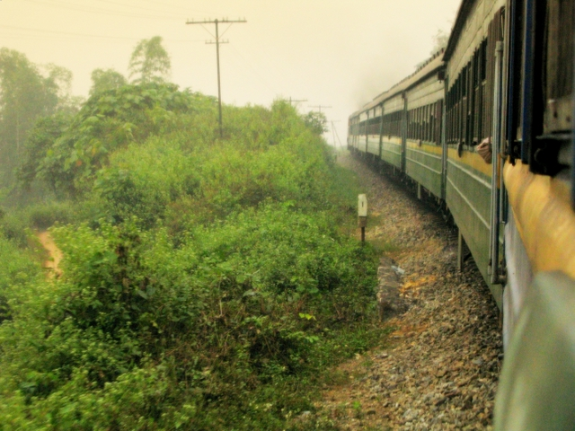 Travelling from Hanoi to Lao Cai.